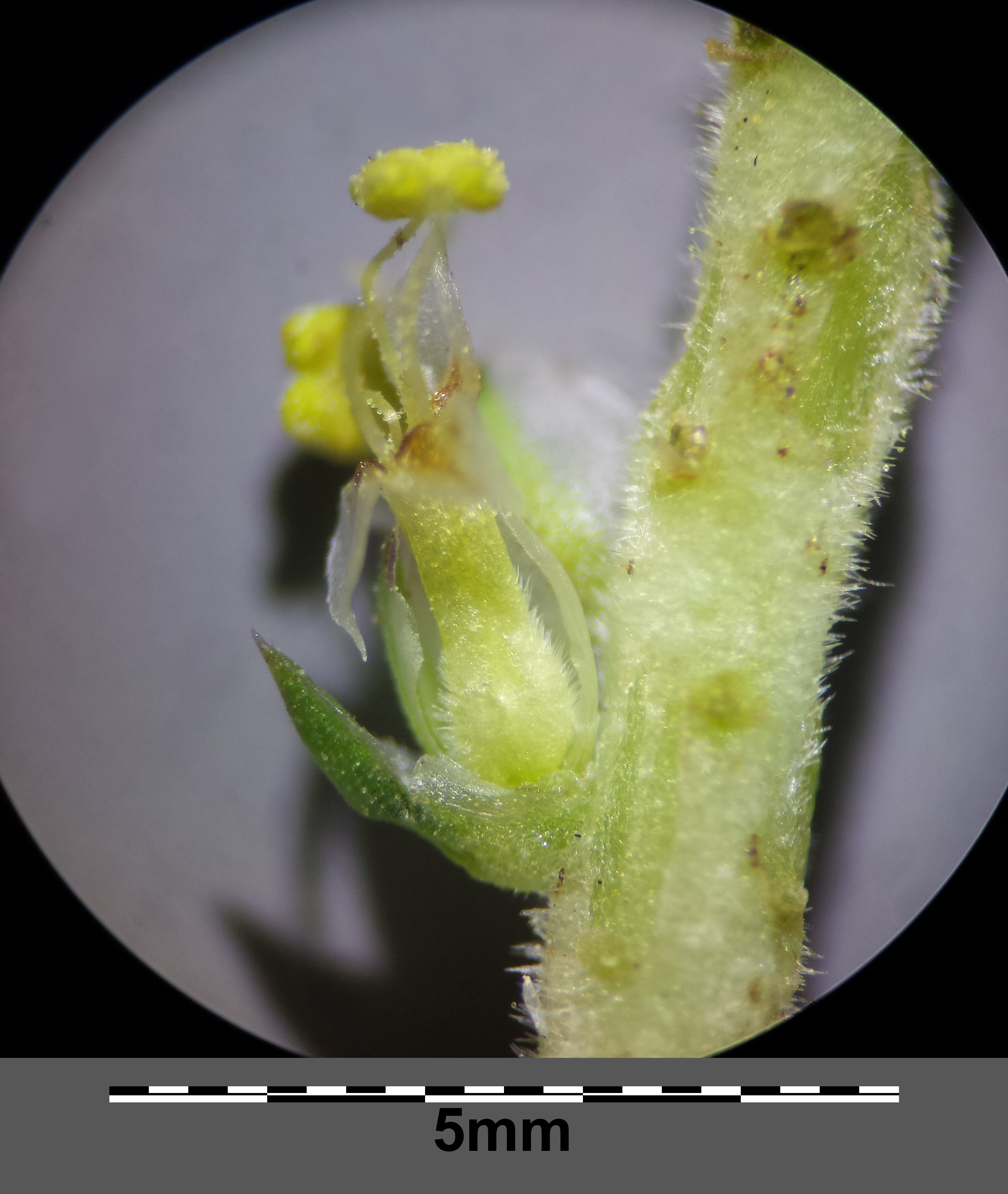 Flower, calyx removed in front Taxonym: Plantago maritima ss Fischer et al. EfÖLS 2008 ISBN 978-3-85474-187-9 Location: next to Ziersdorf, district Hollabrunn, Lower Austria - ca. 225 m a.s.l. Habitat: salty verge